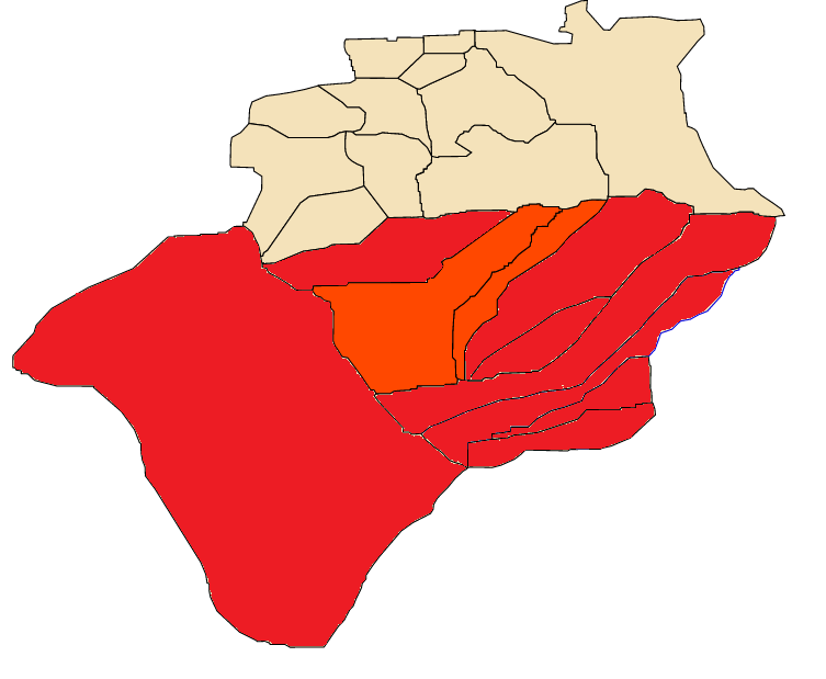 Wilaya déléguée de Béni Abbès, wilaya de Béchar. Algérie